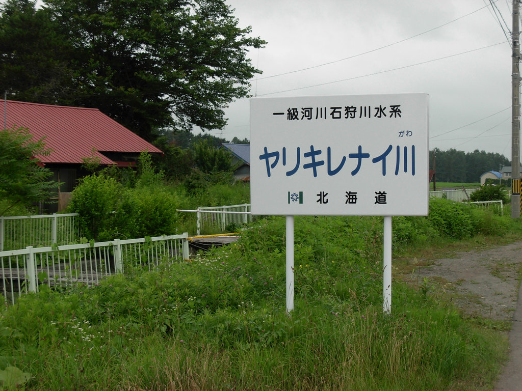 Information board of Yarikirenai river (Hokkaido, Japan)